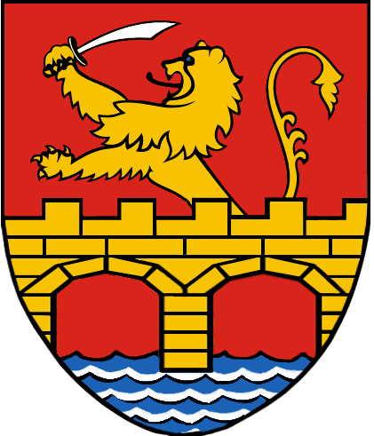 A golden lion holding a saber in attack possititon on a gold bridge , gules background